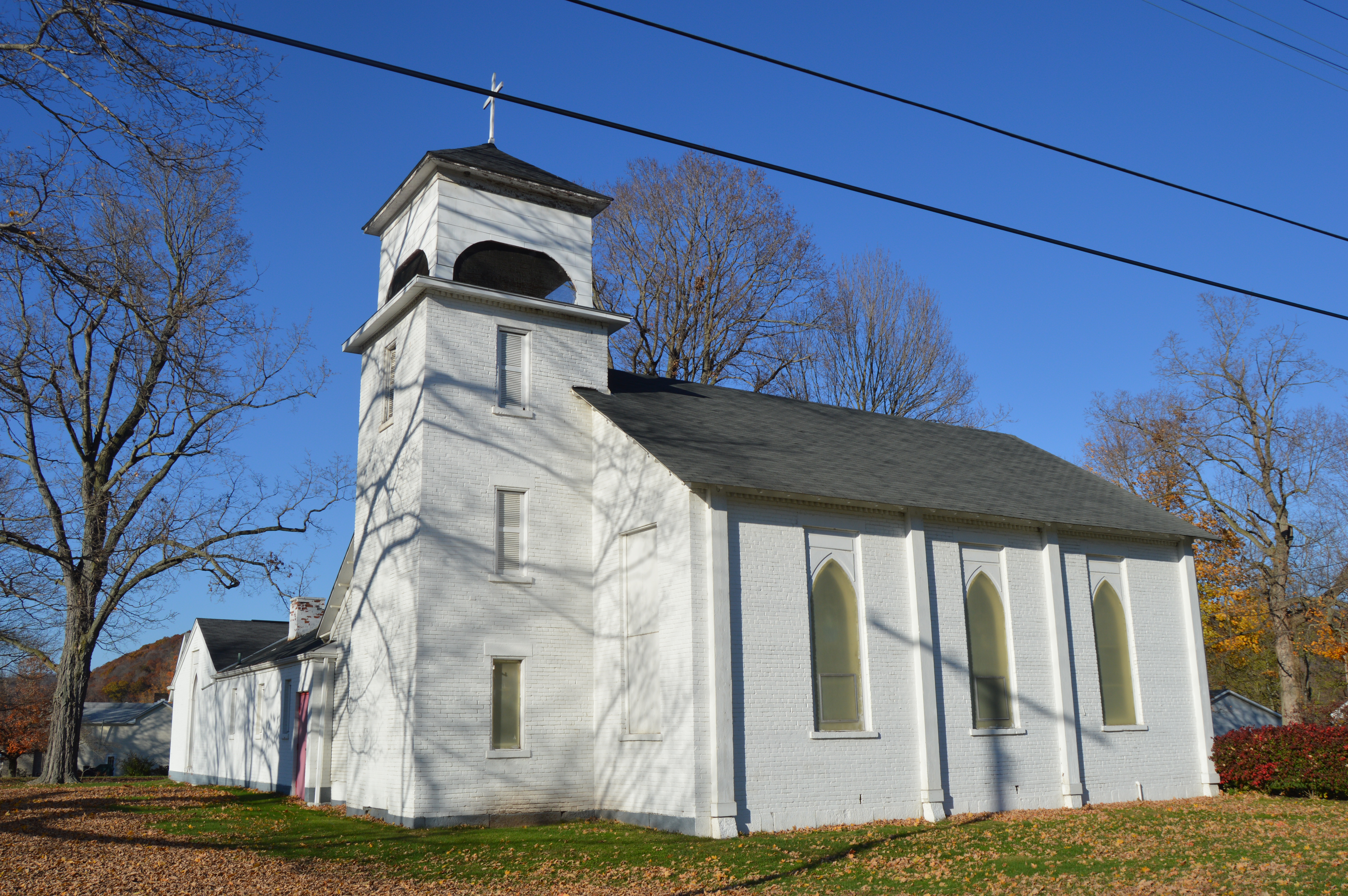 Western and southern sides of St. Luke's Episcopal Church, located on the northwestern corner of the junction of Third and Market Streets in Georgetown, Pennsylvania, United States. Built in 1833, it is home to the oldest parish (founded 1814) in the Diocese of Pittsburgh and older than any in the breakaway ECUSA diocese.